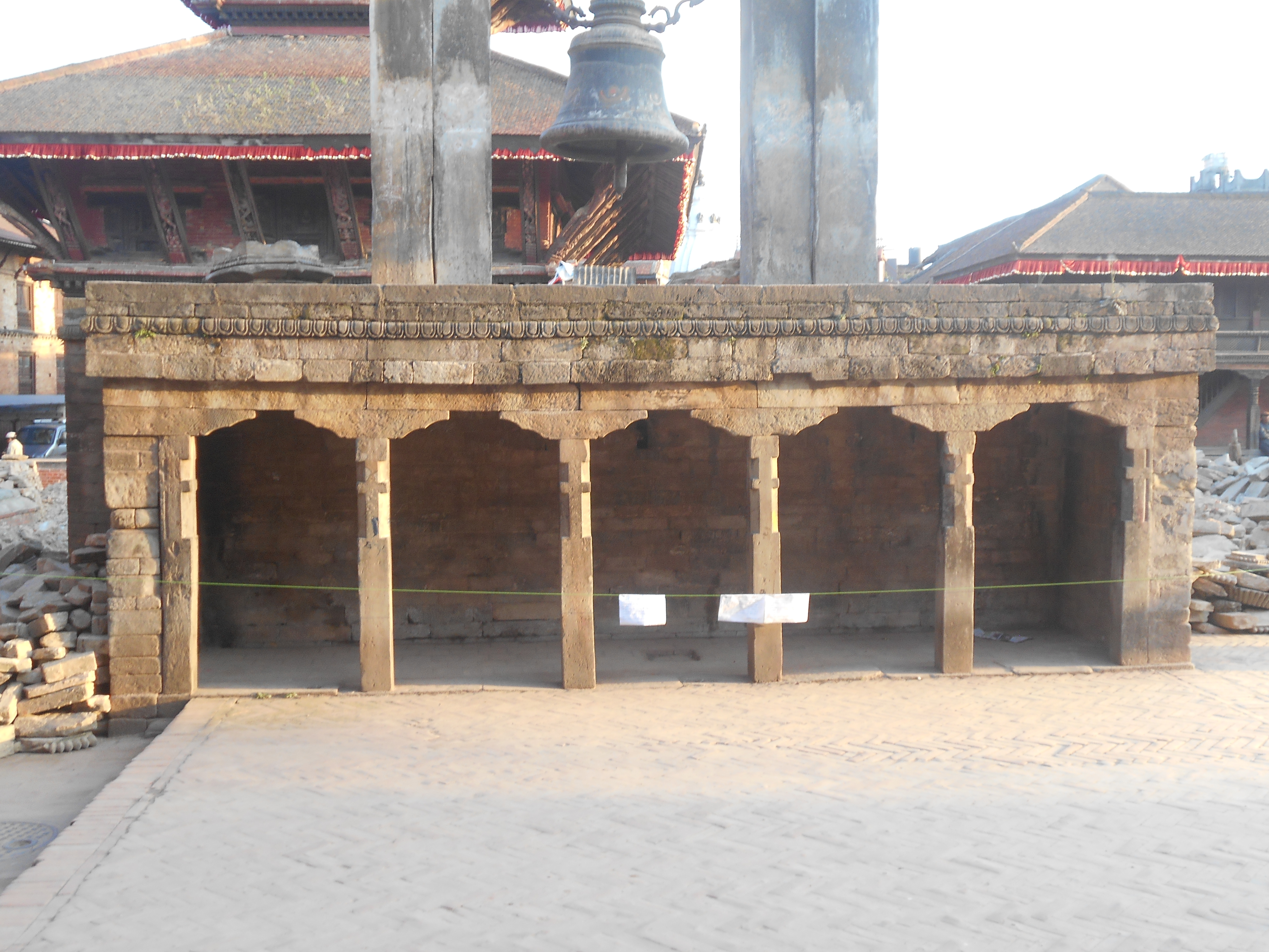 Earthquake Nepal 2015